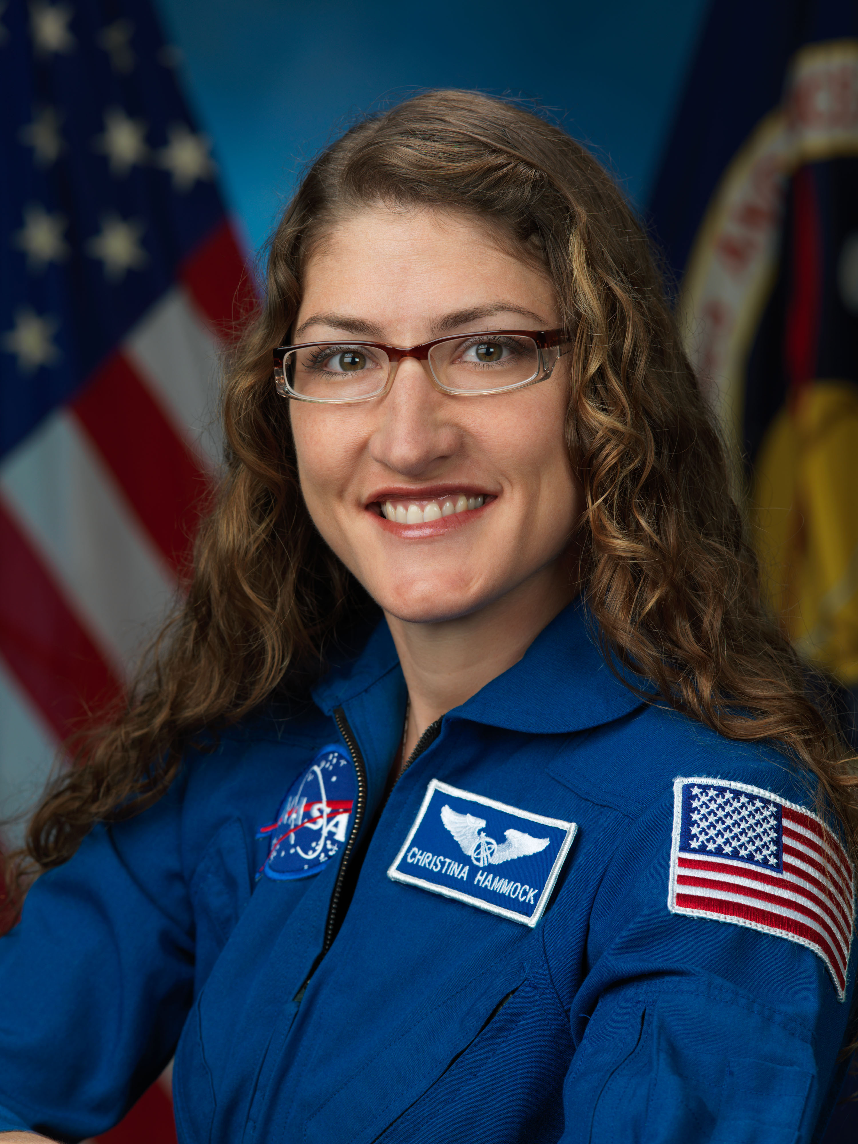 JSC2014-E-007974 (10 Jan. 2014) --- Christina M. Hammock, NASA astronaut candidate class of 2013.